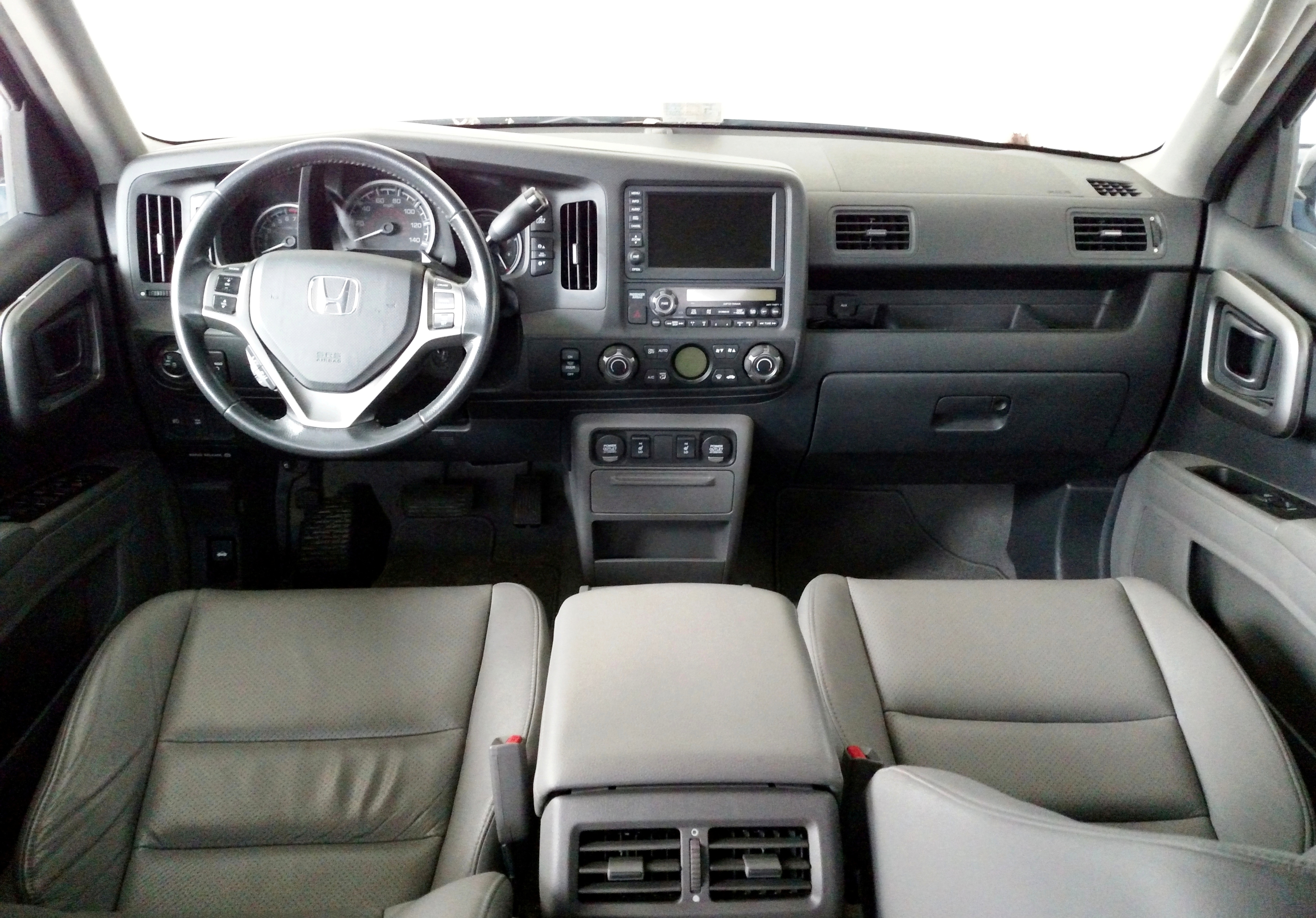 Front passanger area in a 2009 Honda Ridgeline RTL with navigation